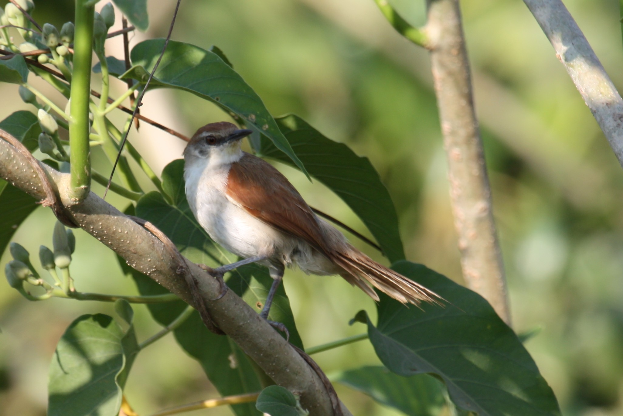 A Yellow-chinned Spinetail in Brazil.